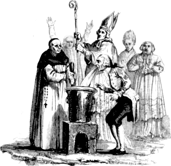 Aristocracy's Last Hiccup.